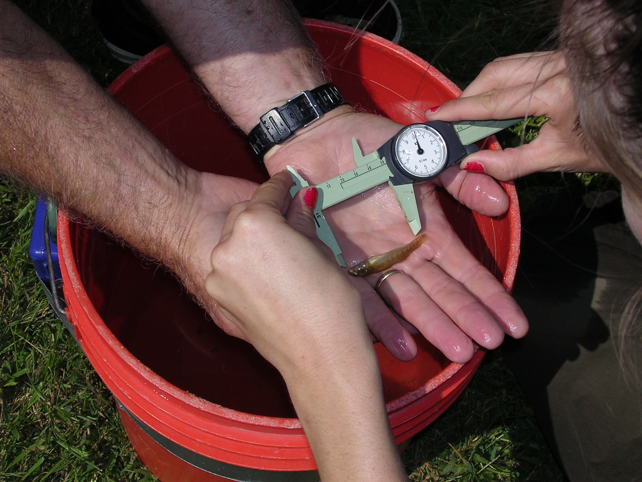 Biologist measuring an adult Cherokee darter (Etheostoma scotti)